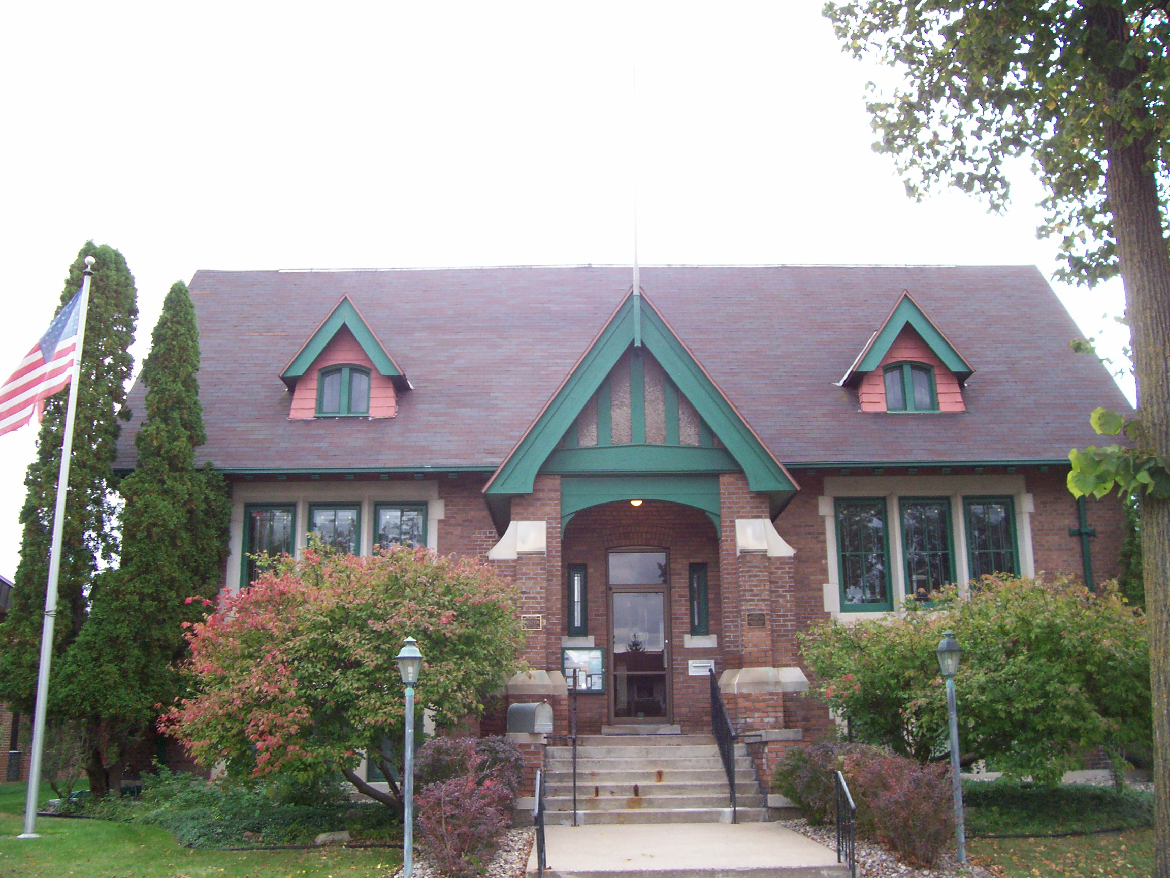 The front of the Waupaca, Wisconsin Historic Society building. It is listed on the National Register of Historic Places.